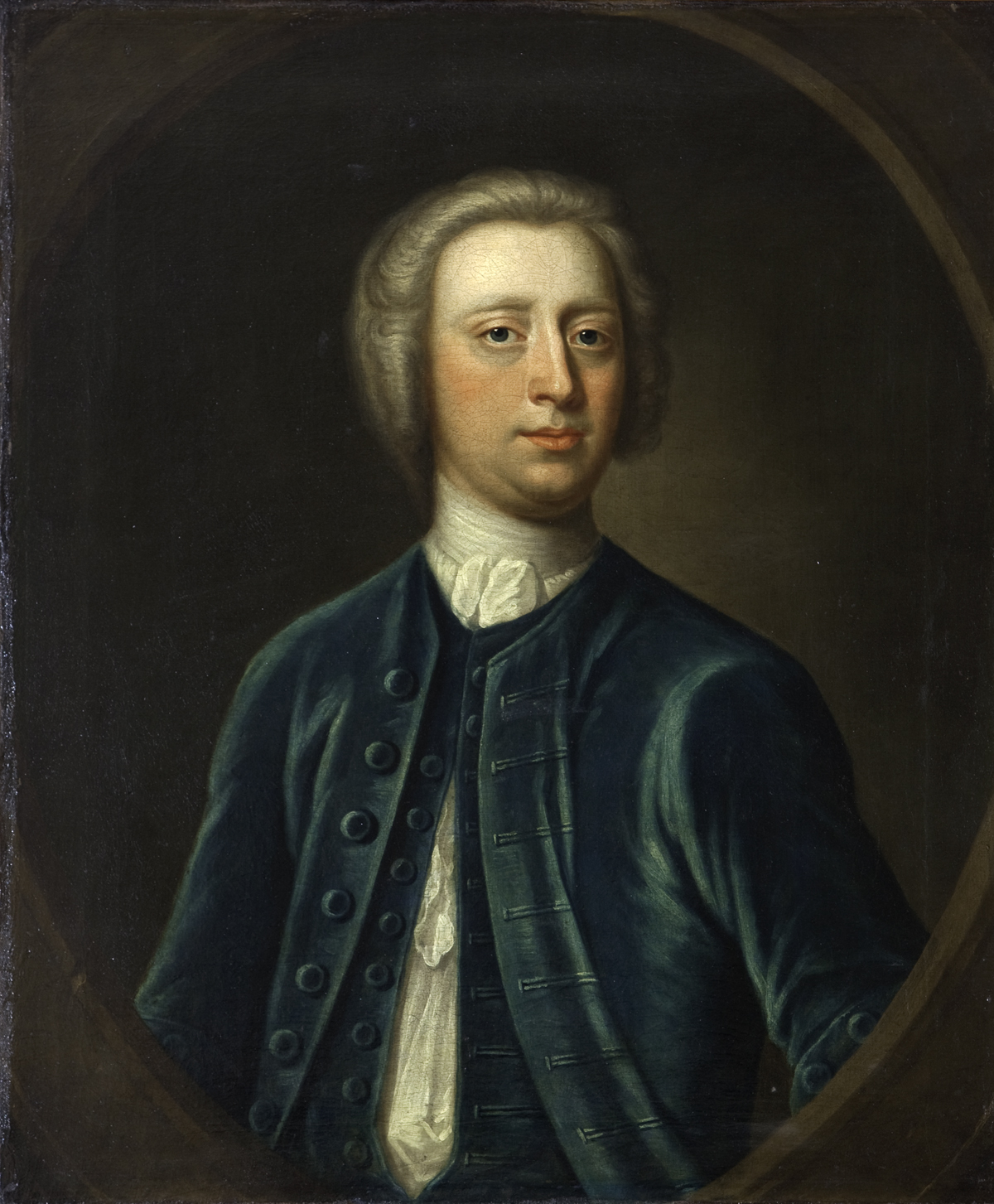 Portrait of Thomas Anson (circa 1695 date QS:P,+1695-00-00T00:00:00Z/9,P1480,Q5727902 – 30 March 1773), MP.